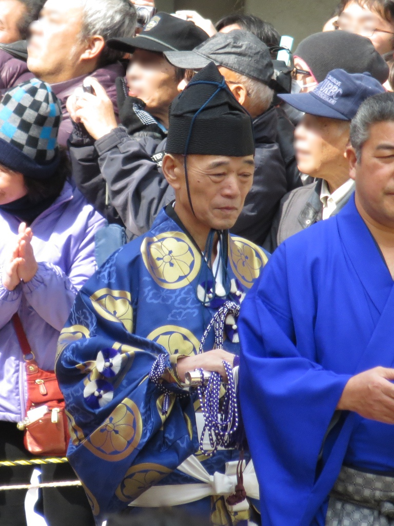 39th Shikimori Inosuke (Gyōji) in Sumiyoshi taisha.